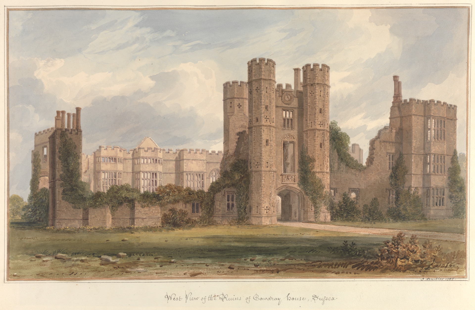 "West view of the Ruins of Cowdray House, Sussex," by John Buckler and John Chessell Buckler, watercolour, 20 1/2 in. (52.1cm). Courtesy of the Paul Mellon Collection, Yale Center for British Art, Yale University, New Haven, Connecticut.